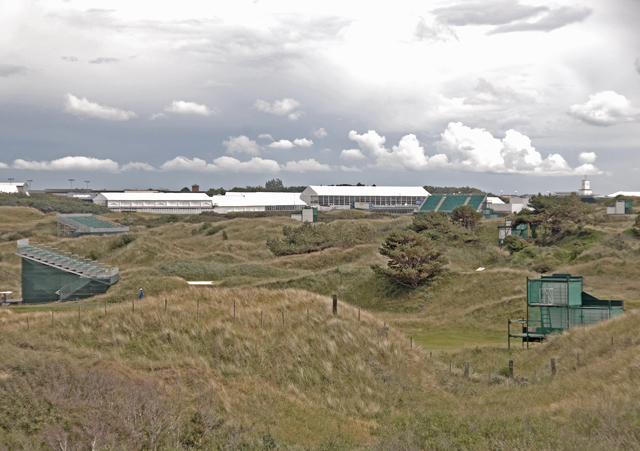 Royal Birkdale Preparing for The Open 2008